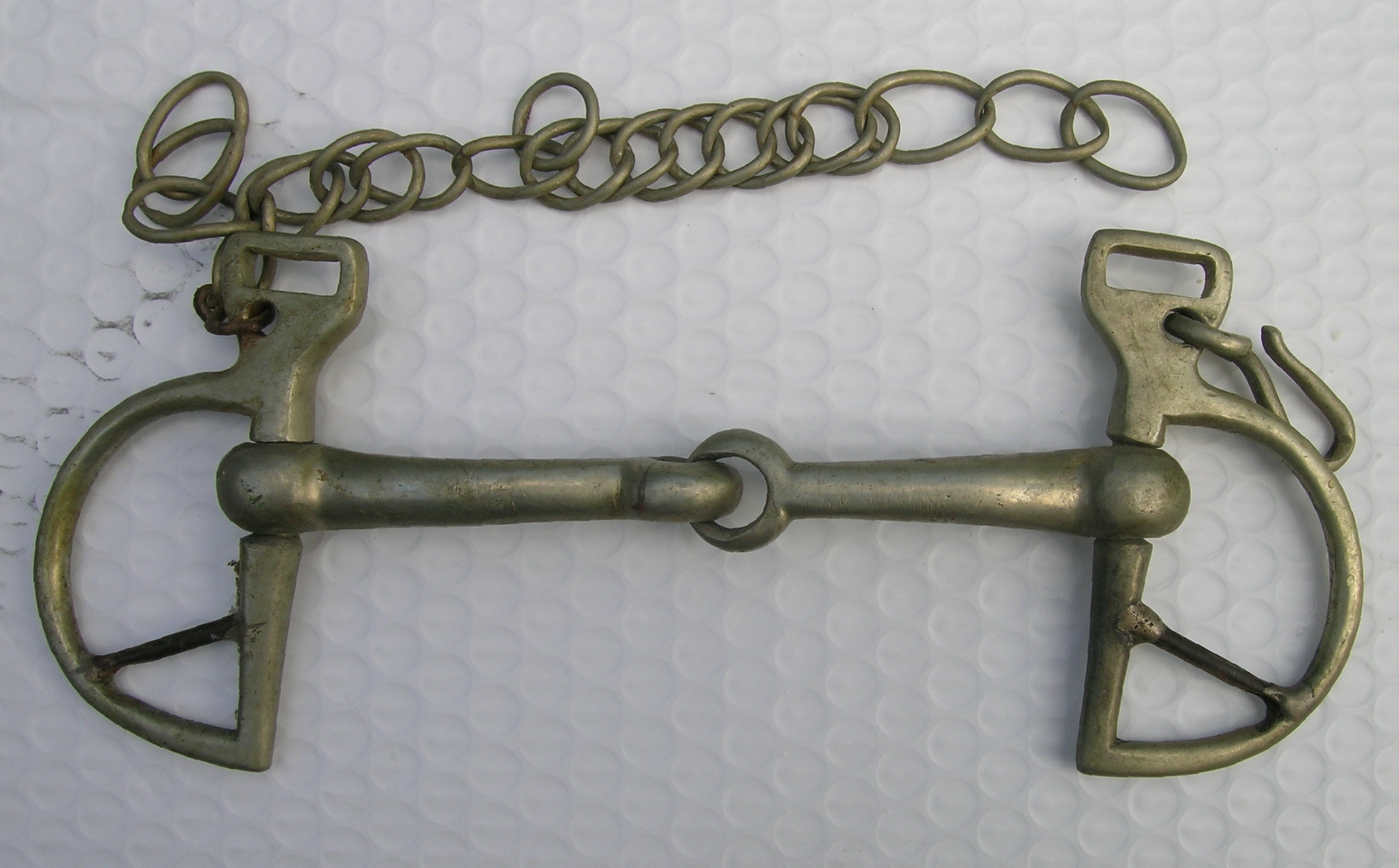 An old solid nickel Kimblewick bit which had slots made to obtain greater leverage.